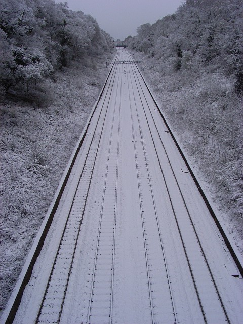 Sonning Cutting Looking down from Warren Road at the cutting's deepest point. In the distance is the Butts Hill Road/Pound Lane bridge in the next grid-square to the east.